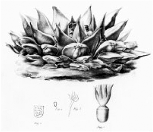 Ariocarpus retusus